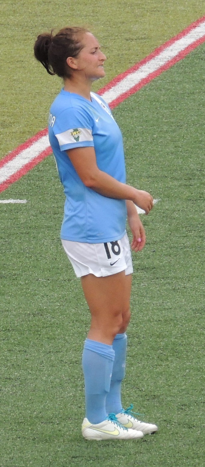 Jackie Santacaterina, soccer player; 2013-06-09 Chicago Red Stars vs Boston Breakers